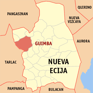 Map of Nueva Ecija showing the location of Guimba